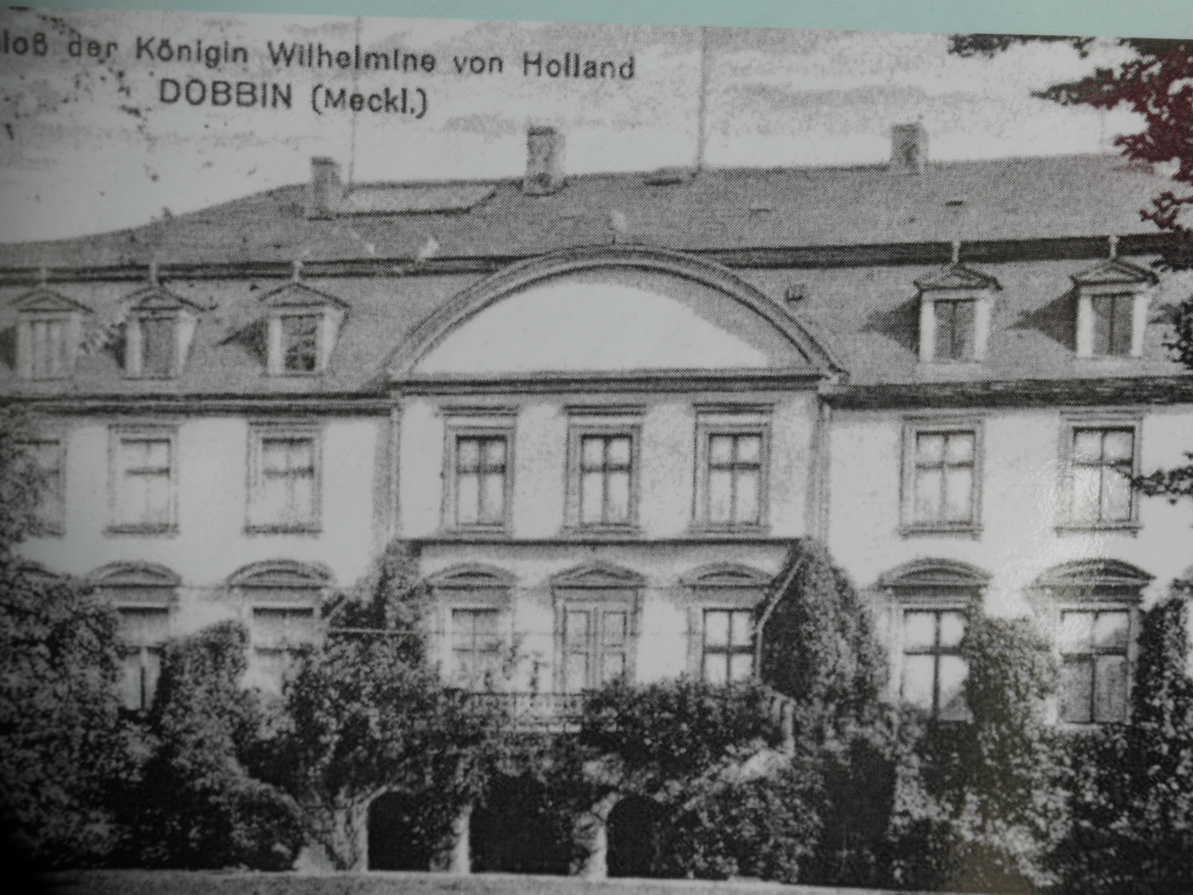 castle in Dobbin, destroyed after 1945